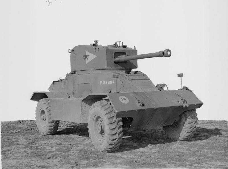 Tanks and Afvs of the British Army 1939-45 AEC Mk III armoured car